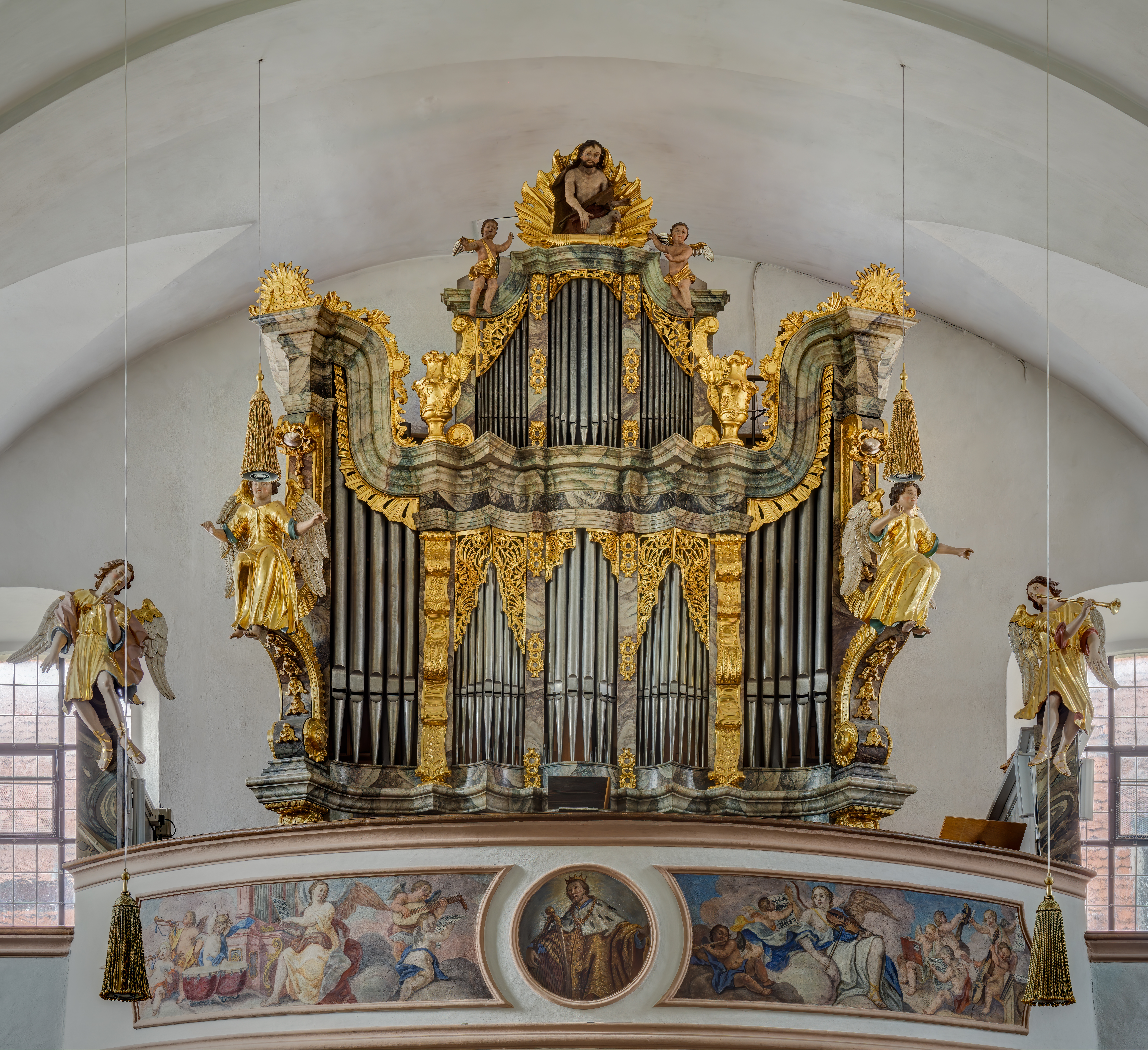 Pipe organ of the church St. John the Baptist in Auerbach in the Upper Palatinate